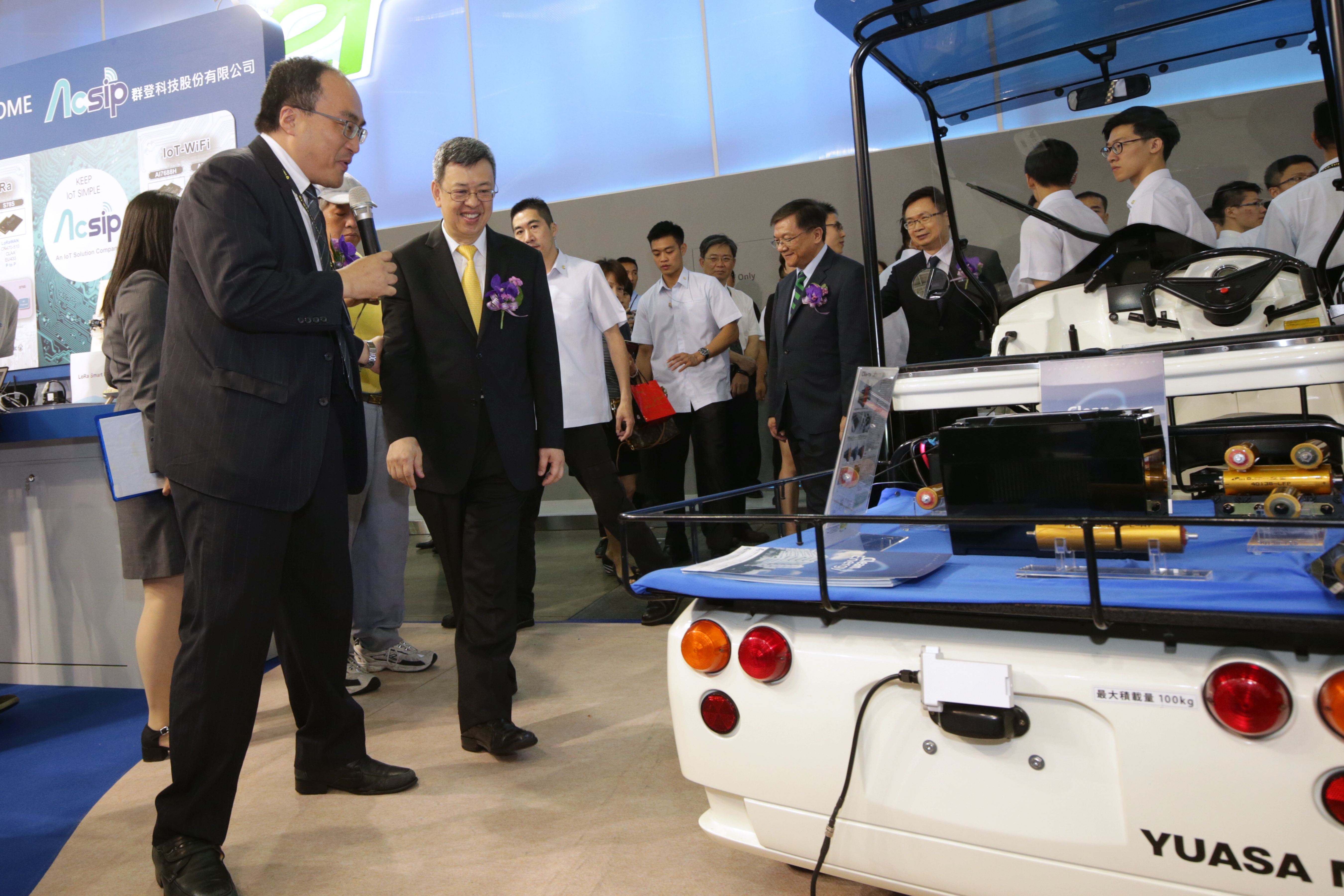 授權方式及範圍：中華民國總統府│政府網站資料開放宣告 Authorization Method & Scope: Office of the President, Republic of China (Taiwan) | Government Website Open Information Announcement